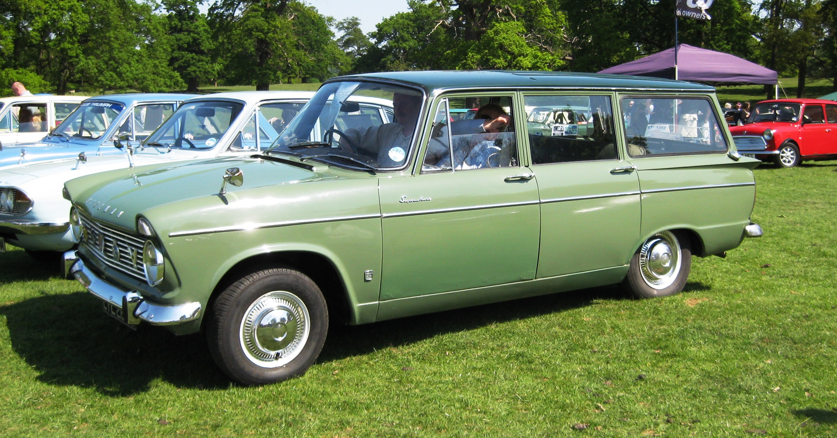 Hillman Super Minx 1725cc estate from 1966 at Woburn Classic Car Show